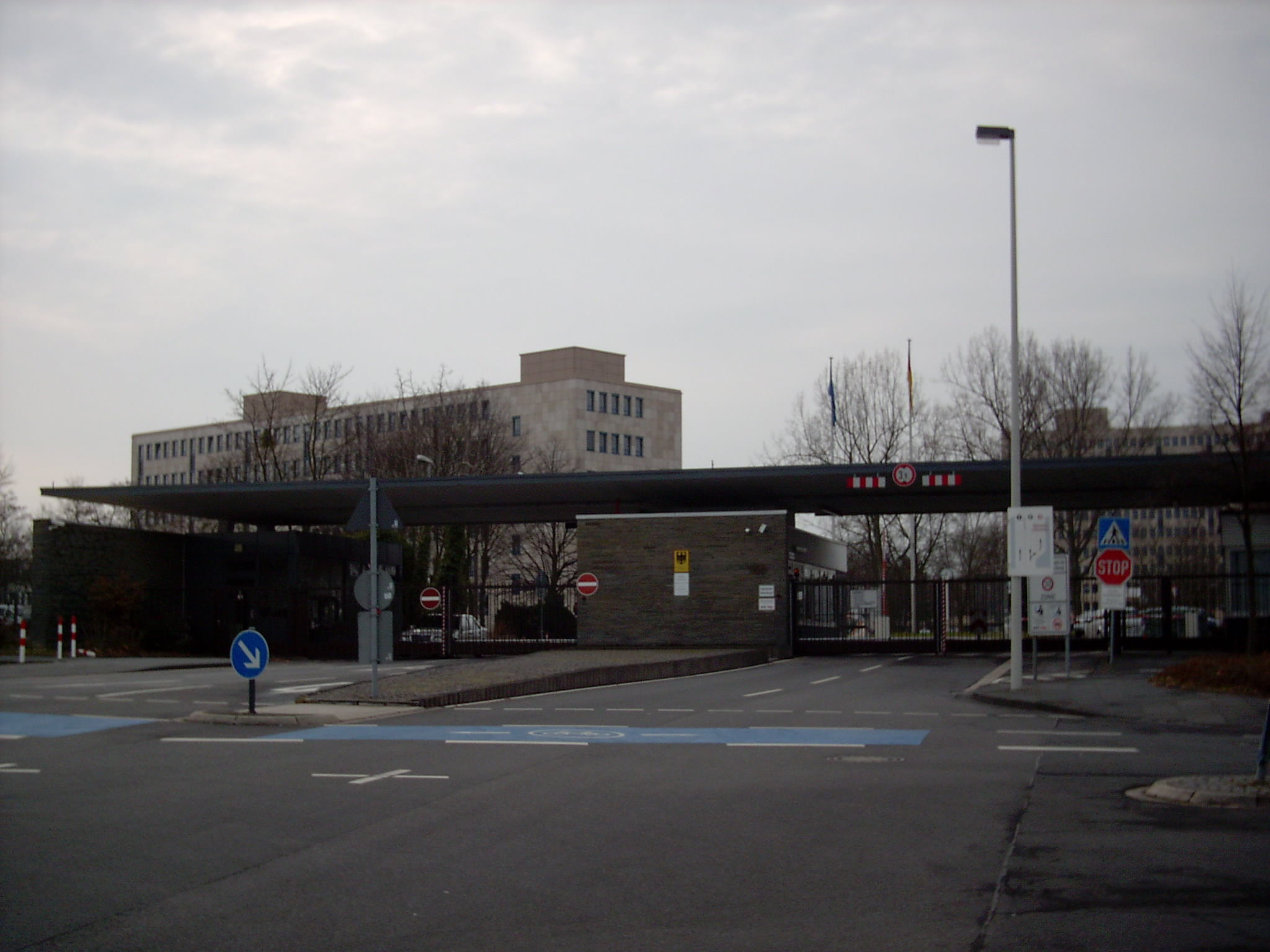 Entrance to the Federal Ministry of Defense in Bonn. The building is located on the “Hardthöhe”, an elevation in the west of Bonn.